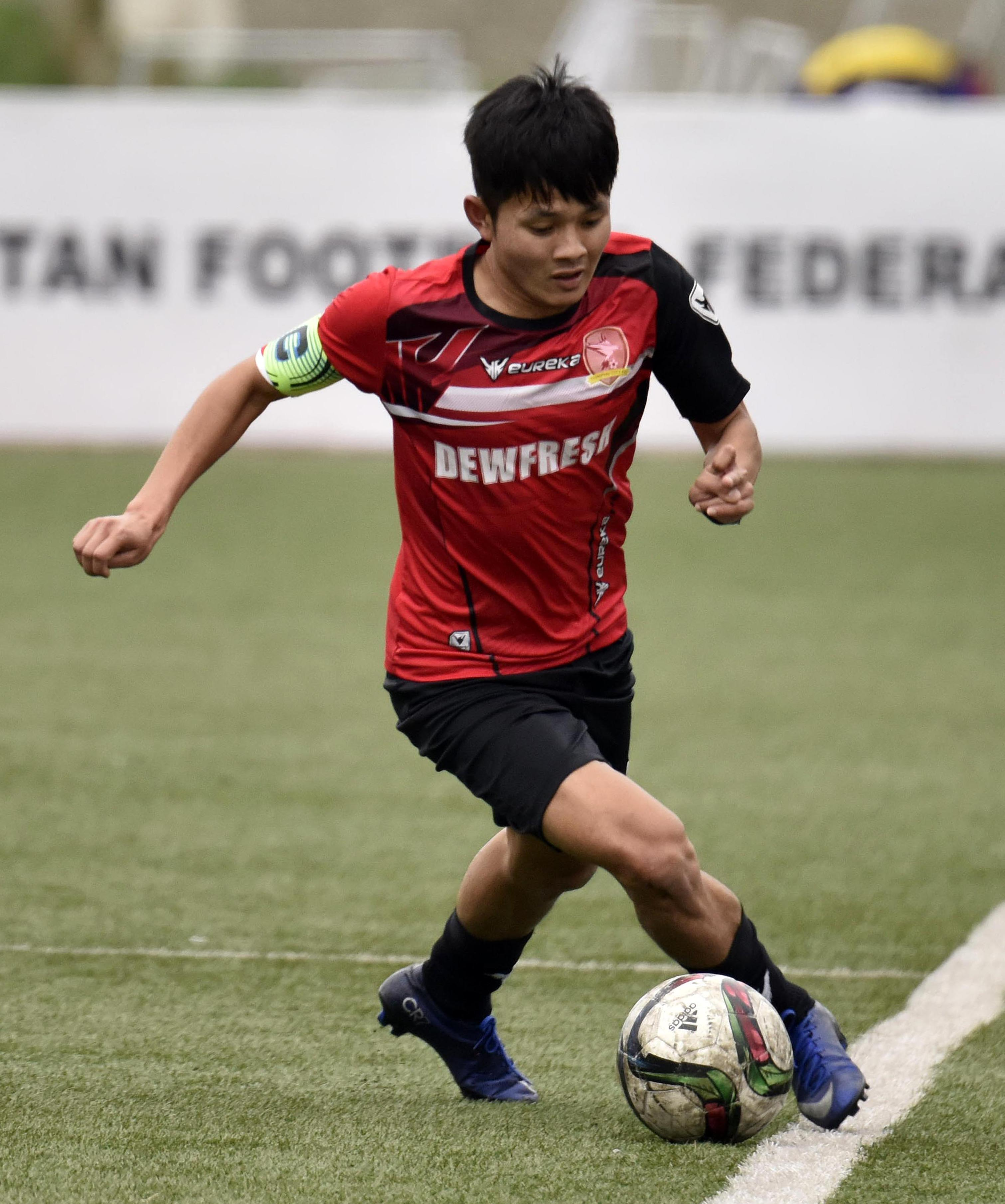 Playing the 2016 Thimphu League against Thimphu FC